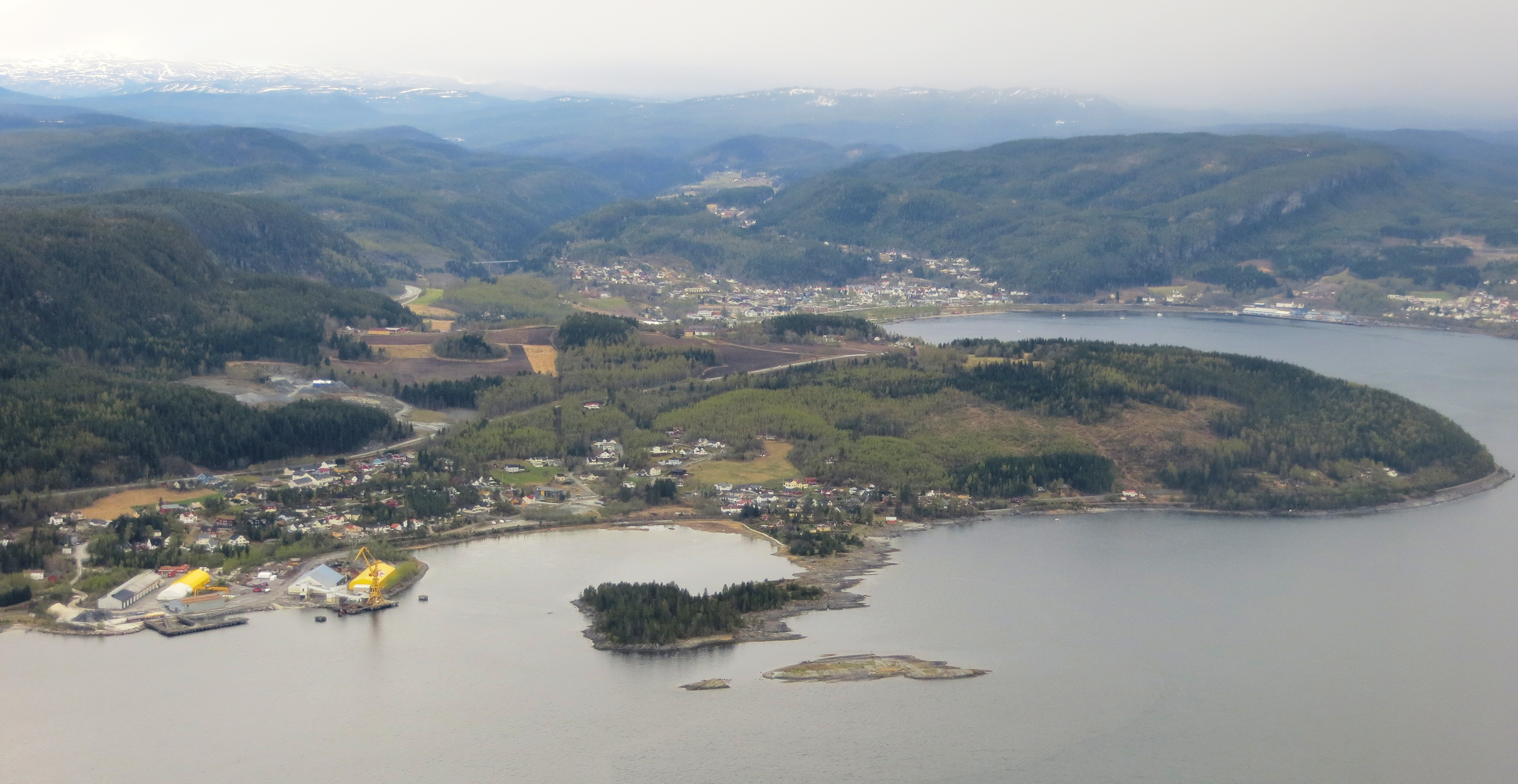 Image from the municipality of Malvik, along the Trondheim Fjord, just east of Trondheim - Norway.